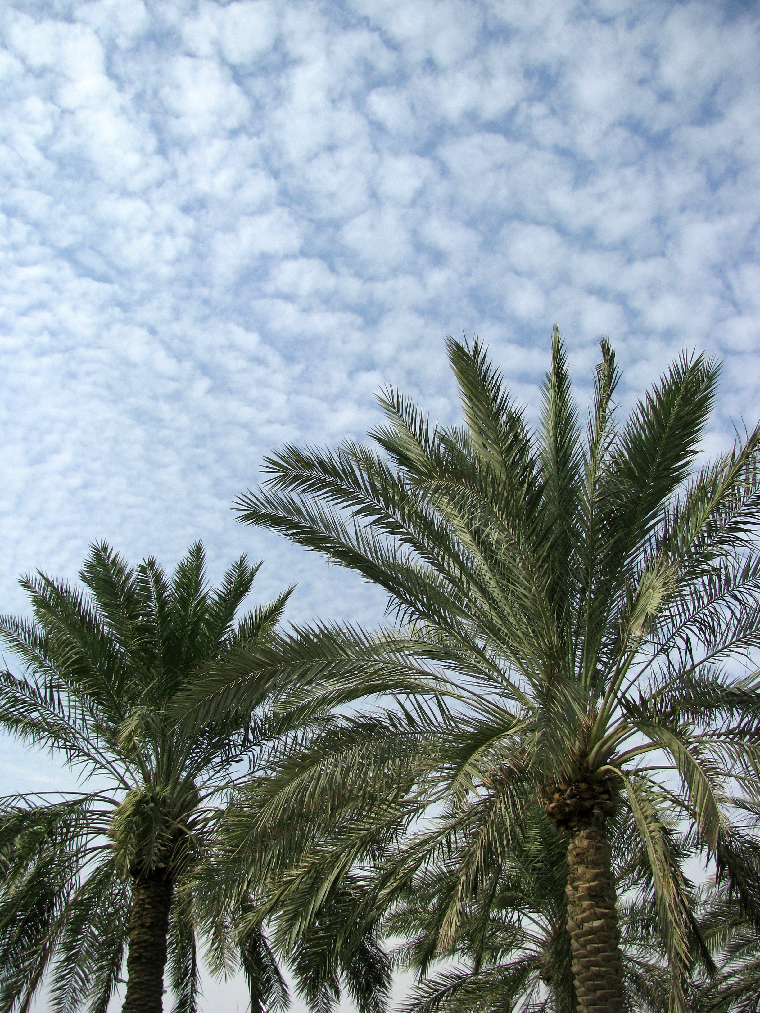 We had a beautiful day to walk along the Corniche - low 20'sC, and clouds that were asking to be photographed.